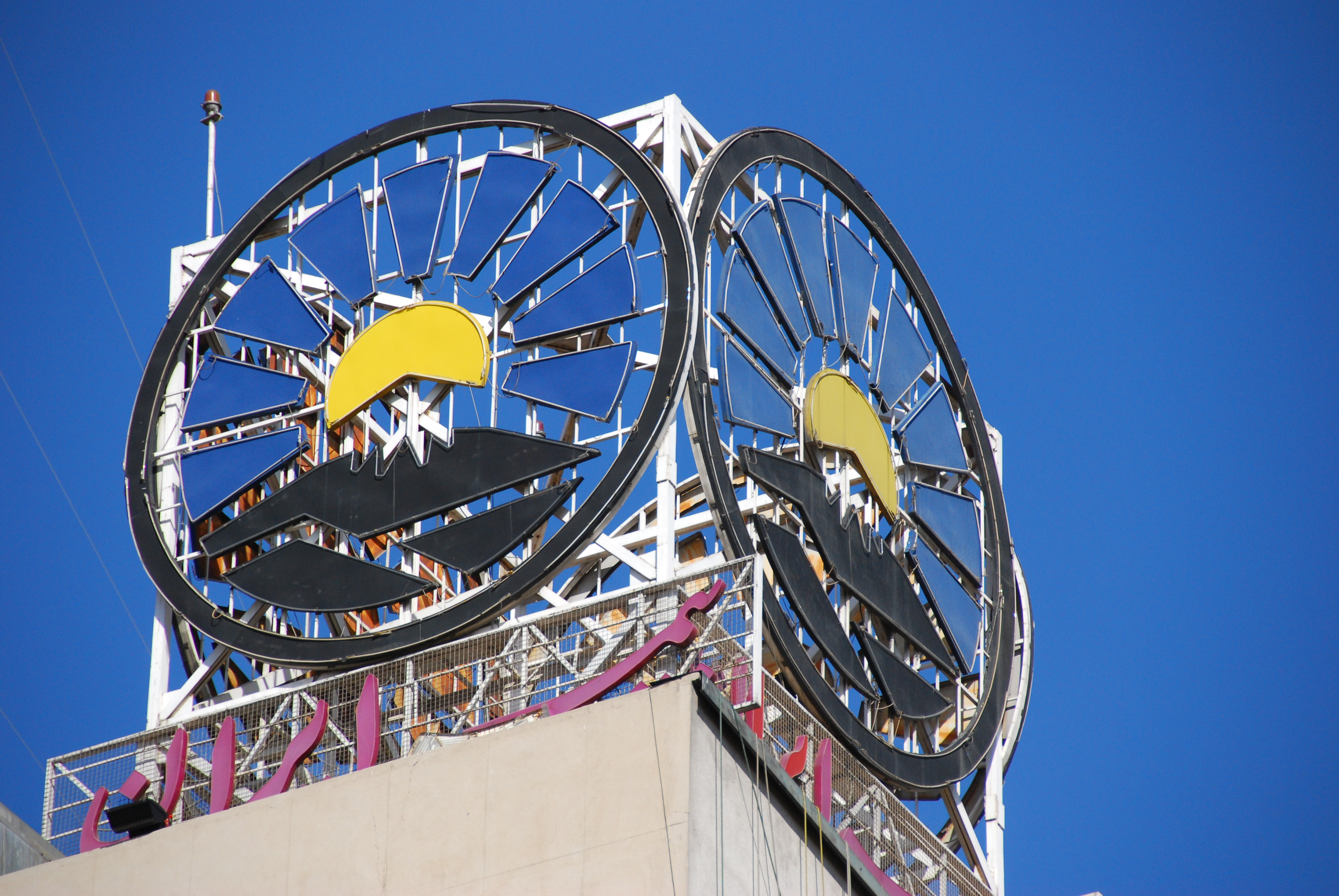 The logo of Bimeh Iran (Iran Insurance) on the top of the company's headquarter in Tehran.